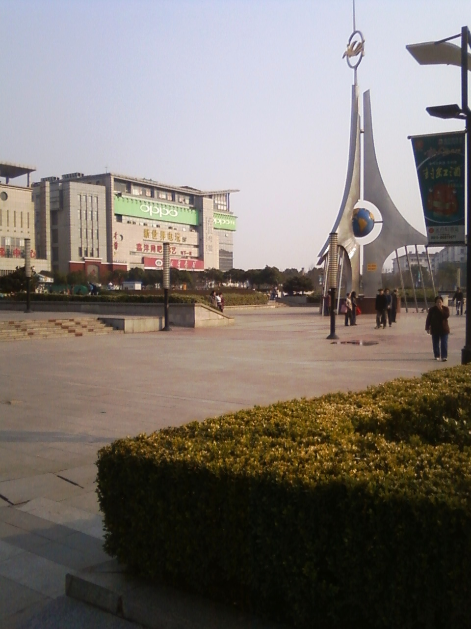 "Peoples Square" Central Danyang, Jiangsu, China. At the center; a monument with a globe at its heart including the inscription on its base(走向世界) roughly translating as "to the world"